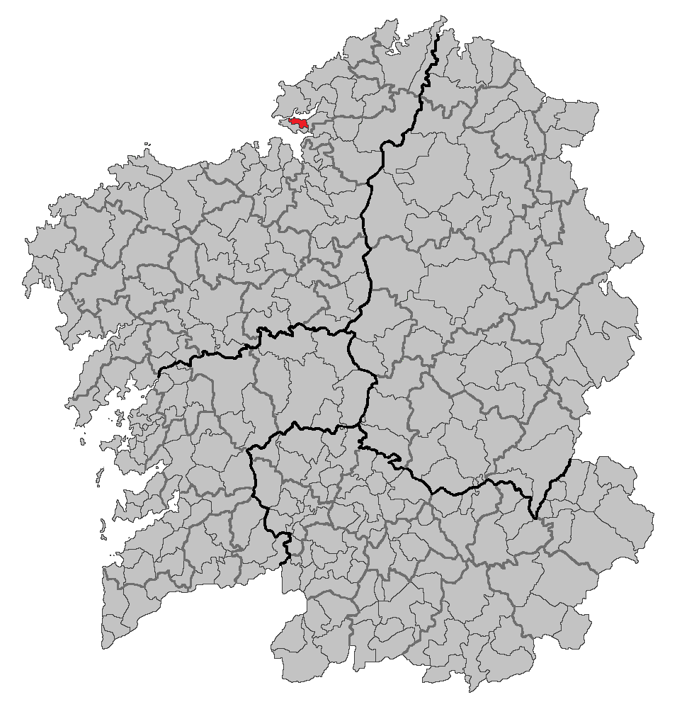 Location map of Mugardos, A Coruña, Galicia